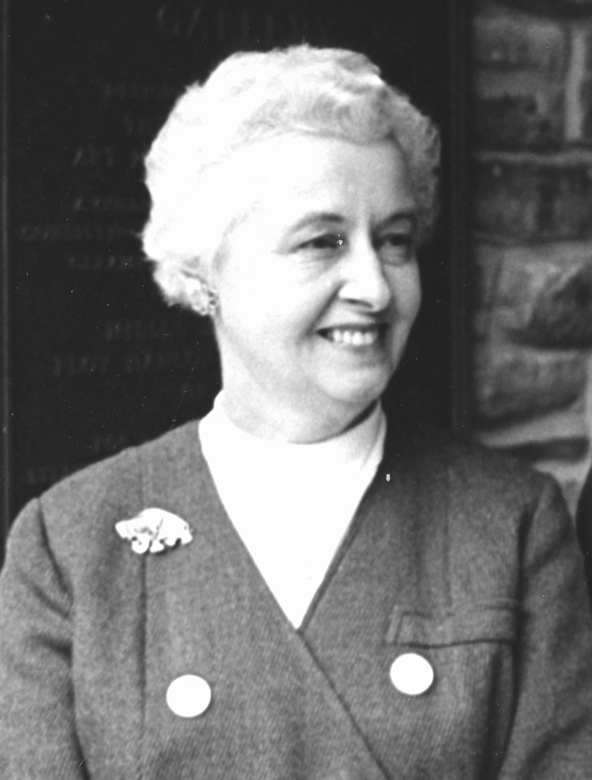 Gwen Awsumb in 1937